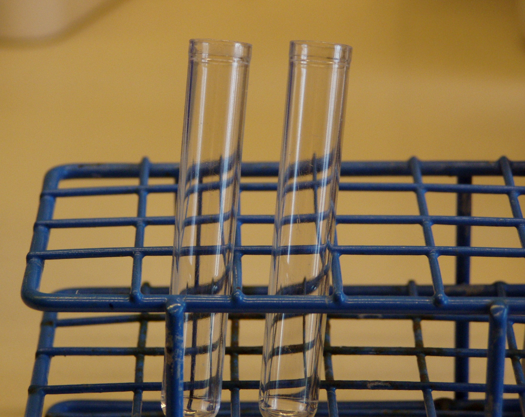 Two small test tubes in a test tube rack.